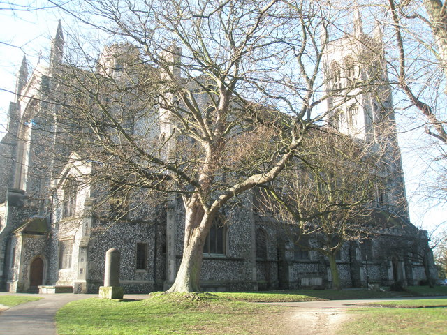 St Mary's Church from St Mary's Road, near to Fratton, Portsmouth, Great Britain. A magnificent parish church, unlucky not to have been chosen from the shortlist when the new diocese of Portsmouth was created.